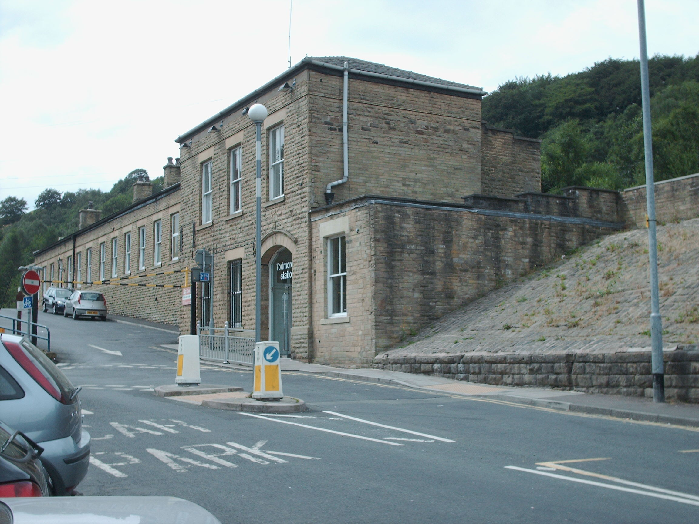 Todmorden railway station, West Yorkshire, England.